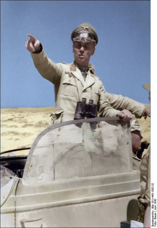 This is a retouched picture, which means that it has been digitally altered from its original version. Modifications: recolored. The original can be viewed here: Bundesarchiv Bild 101I-443-1582-32, Nordafrika, Generaloberst Erwin Rommel.jpg: . Modifications made by Ruffneck88. Nordafrika, Generaloberst Erwin Rommel Photographer BauerArchive description Description provided by the archive when the original description is incomplete or wrong. You can help by reporting errors and typos at Commons:Bundesarchiv/Error reports. Nordafrika, bei Tobruk.- Generaloberst Erwin Rommel, stehend in Kraftfahrzeug; KBK Luftwaffe 7Title Nordafrika, Generaloberst Erwin Rommel Original caption 16.6.1942 Generaloberst Rommel mit seinem Stab, ca. 46 km westl. von TobrukDepicted people Rommel, Erwin: Generalfeldmarschall, Ritterkreuz (RK), Heer, Deutschland (GND 118602446)Depicted place North AfricaDate June 1942date QS:P571,+1942-06-00T00:00:00Z/10Collection German Federal Archives Native nameDas BundesarchivLocationKoblenz (headquarters)Coordinates50° 20′ 32.71″ N, 7° 34′ 21.22″ E Established1946Web page control : Q685753 VIAF: 137346469 ISNI: 0000 0004 0555 2728 LCCN: n92025526 NLA: 36455393 Open Library: OL55798A WorldCat institution QS:P195,Q685753Current location Propagandakompanien der Wehrmacht - Heer und Luftwaffe (Bild 101 I)Accession number Bild 101I-443-1582-32 Source This image was provided to Wikimedia Commons by the German Federal Archive (Deutsches Bundesarchiv) as part of a cooperation project. The German Federal Archive guarantees an authentic representation only using the originals (negative and/or positive), resp. the digitalization of the originals as provided by the Digital Image Archive. 16.6.1942 Generaloberst Rommel mit seinem Stab, ca. 46 km westl. von Tobruk